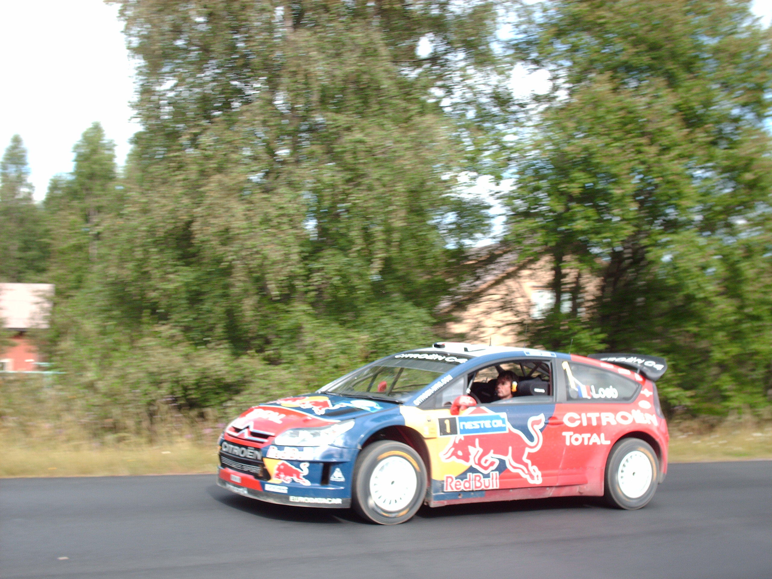 Sebastien Loeb Rally Finland 2008